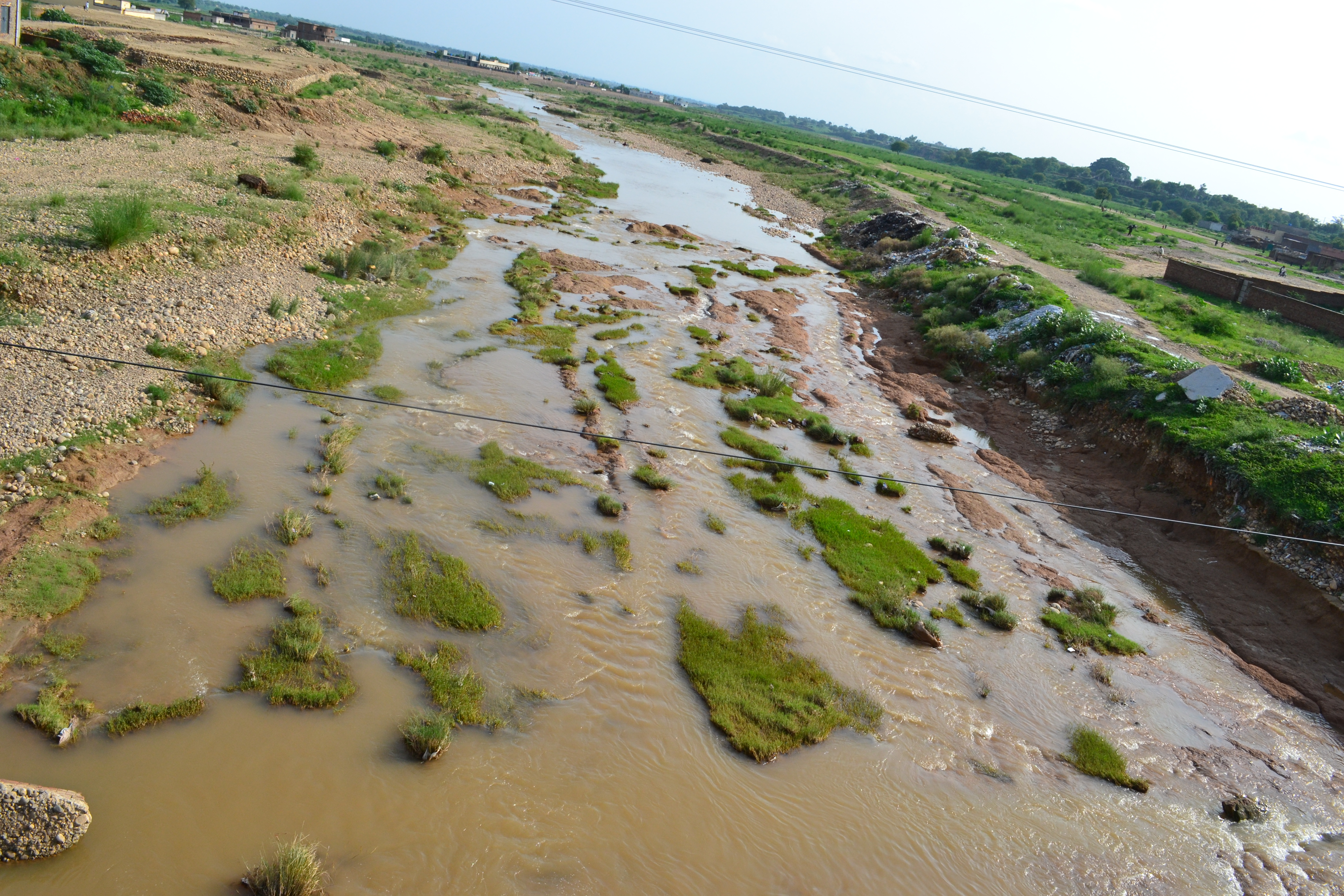 Kanshi stream near Kallar